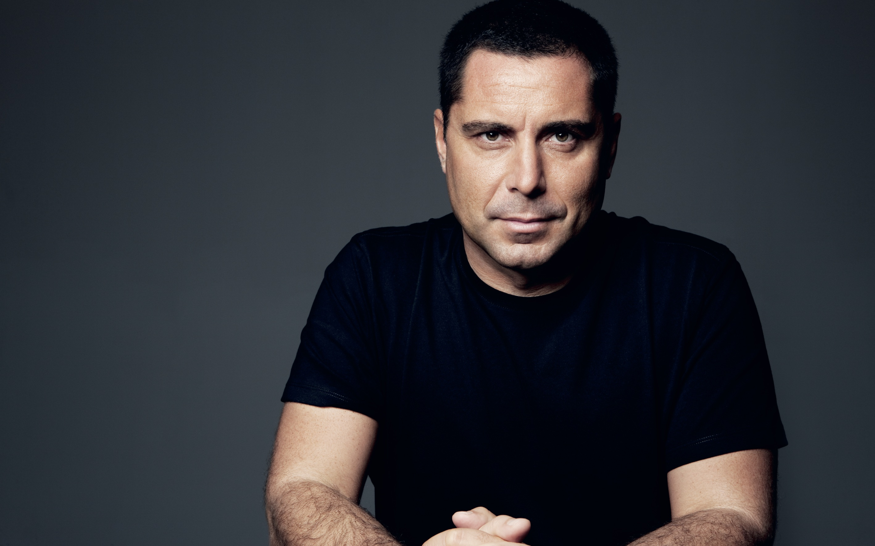 Profile picture of Riccardo Silva